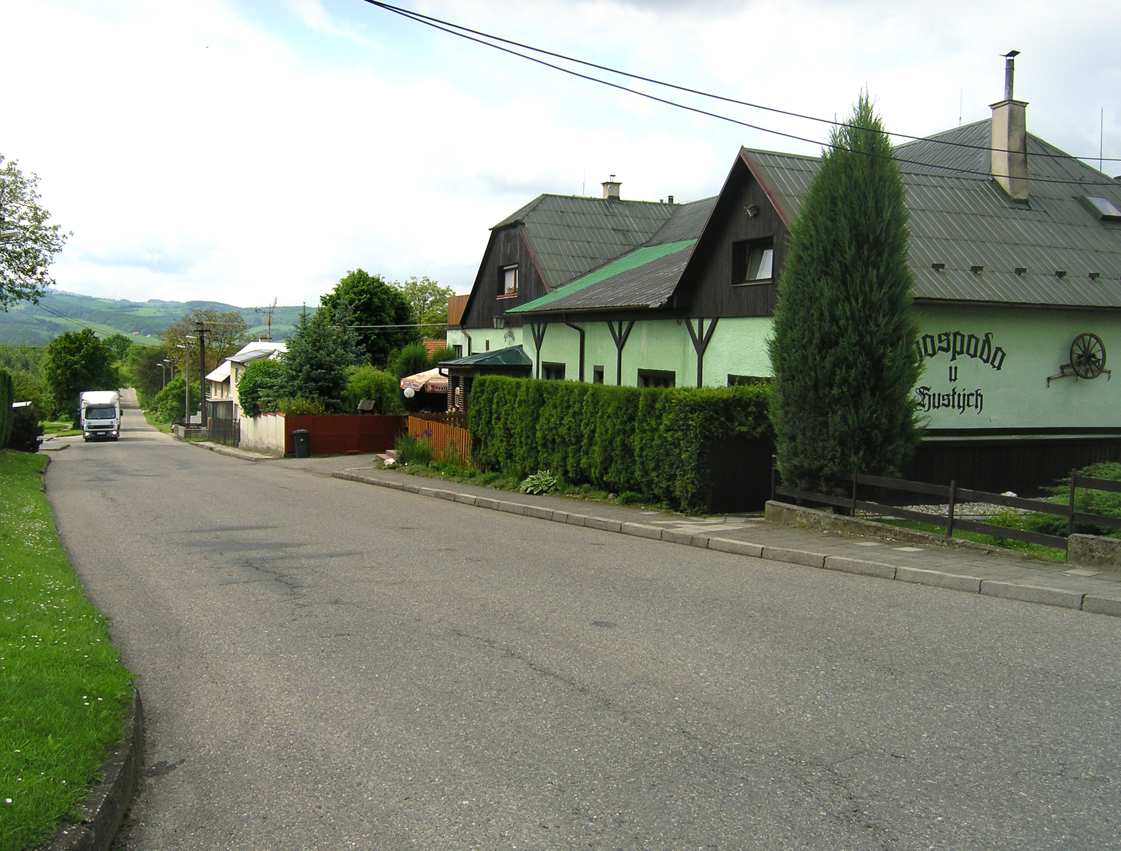 Klečůvka, part of Zlín town, Czech Republic